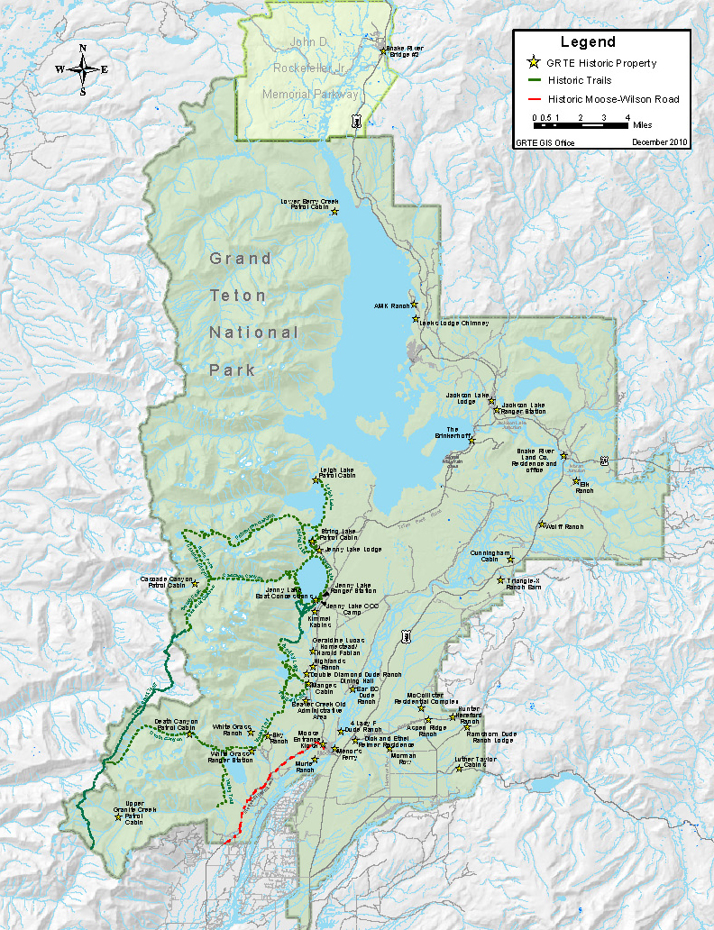 Map of the historic districts and structures in Grand Teton National Park, Wyoming, USA